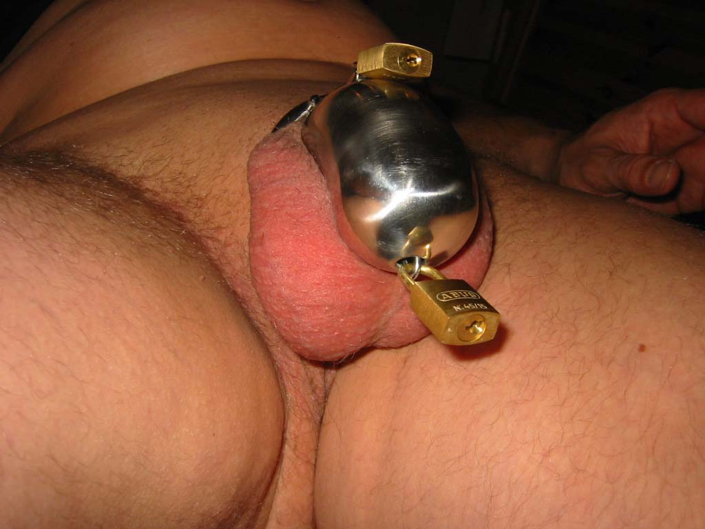 Husband locked in Chastity tube